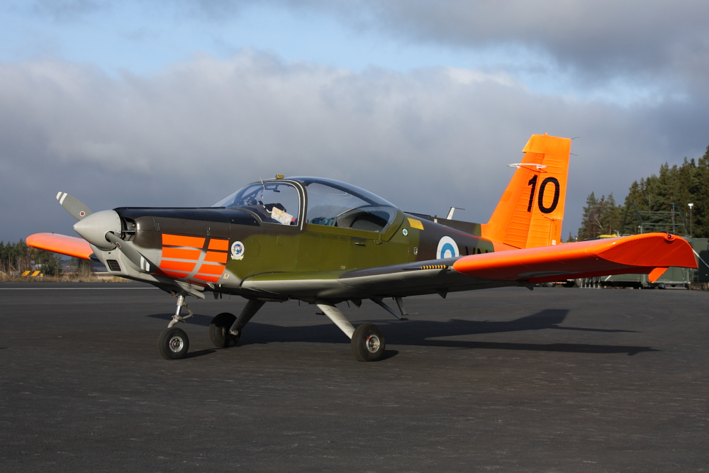 Finnish Valmet L-70 Vinka military basic trainer aircraft.